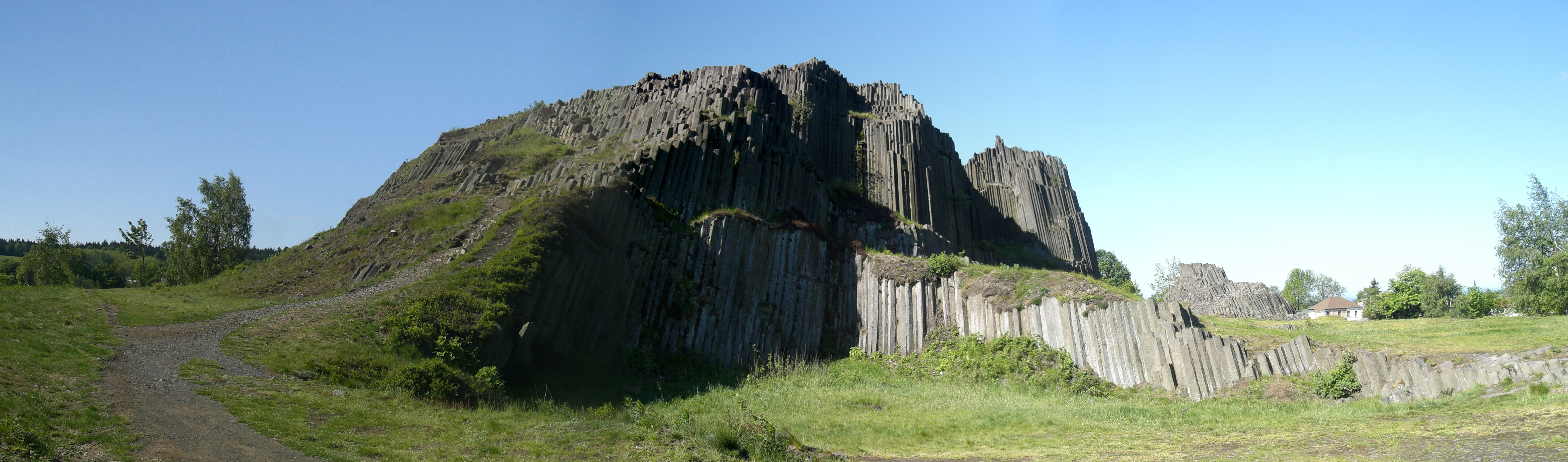 Panská skála - panorama, Czech Republic.